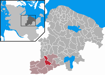 This map shows the area of the Gemeinde (municipality) Wankendorf in the Kreis (district) Plön, Schleswig-Holstein, Germany.